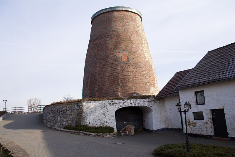 Vetschauer Windmill